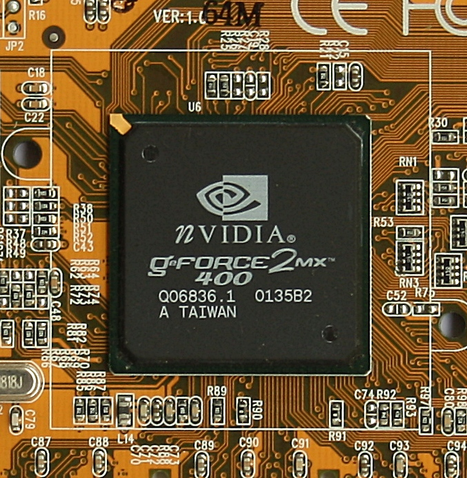 NVIDIA GeForce2 MX 400 (NV11) Camera data Fuji Finepix S6500fd